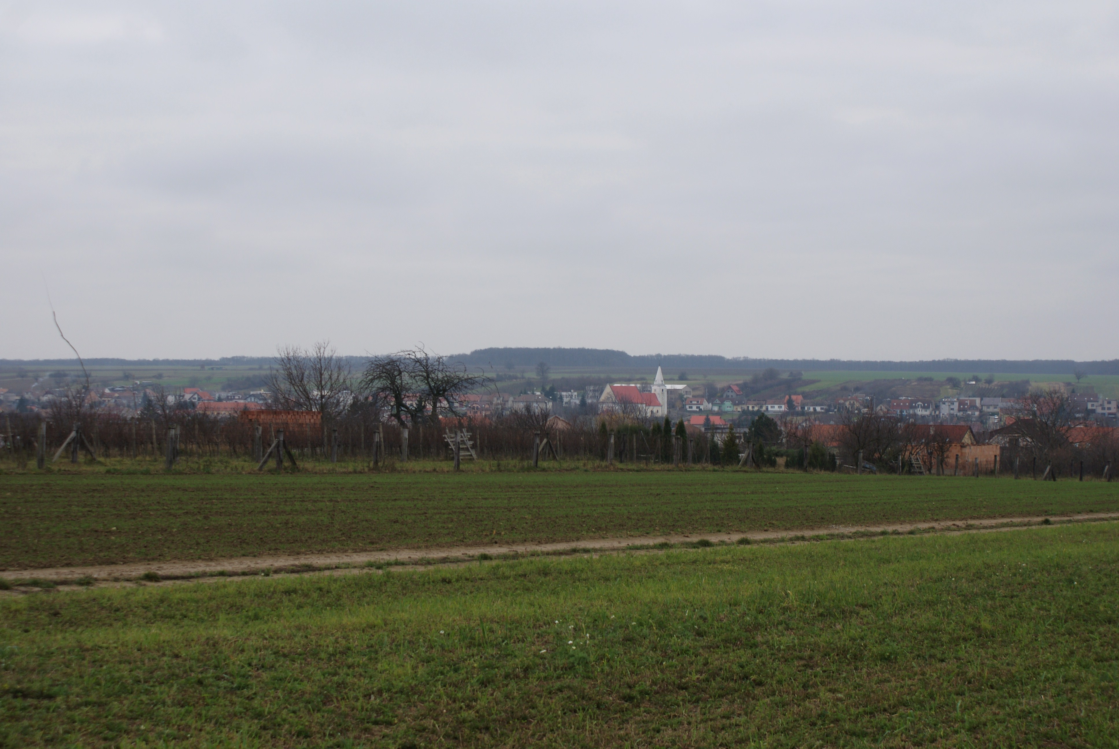 Šenkvice, a village in Pezinok district, Slovakia, view from a distance.